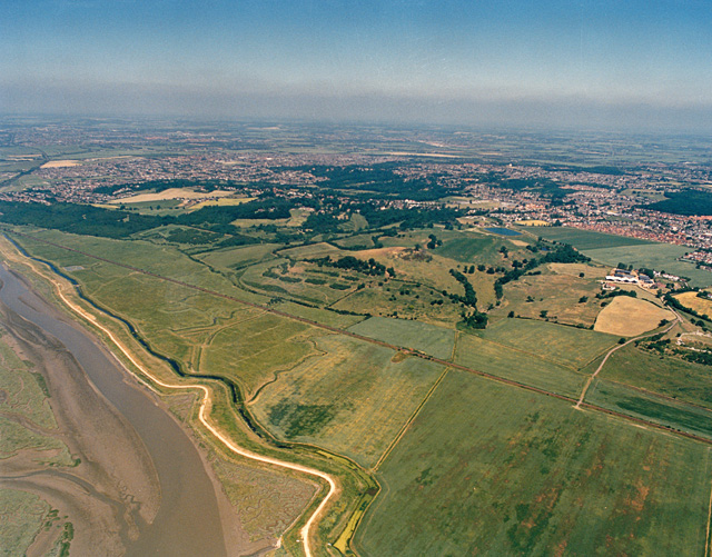 Aerial view of Hadleigh Country Park, western end This shows the two types of habitat in Hadleigh Country Park. The higher ground and slopes (Hadleigh Downs) occupy a band from just above centre-left to just below centre-right. Below and to the right of this is the Hadleigh Marsh. The pale line at the edge of this is to top of the (recently completed) new sea wall. To the left of this is Benfleet Creek, with Canvey Island on the other side.